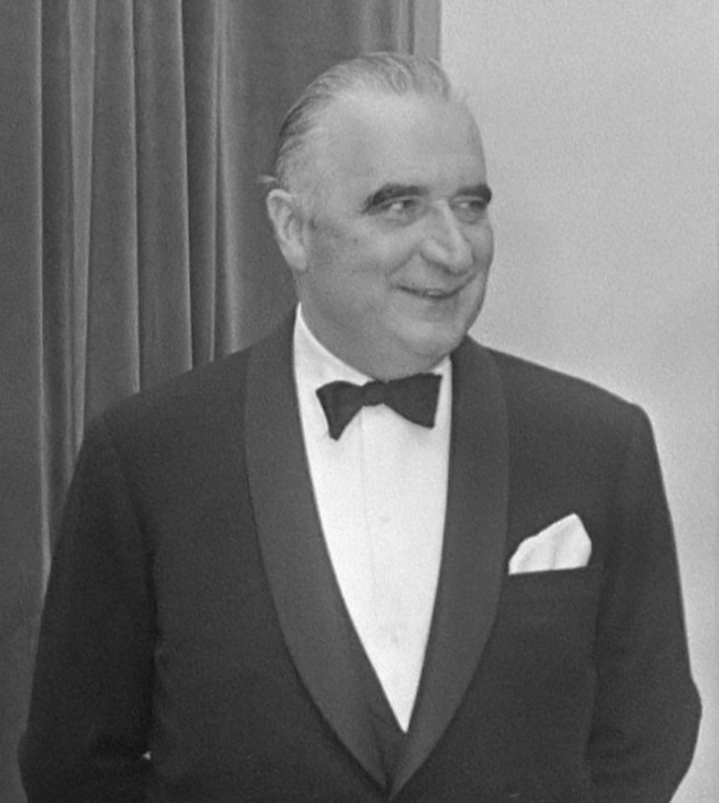 Koningin Juliana en prins Bernhard bieden de deelnemers aan de EEG-Topconferentie een galadiner aan op paleis Huis ten Bosch; v.l.n.r. koningin Juliana, president Pompidou van Frankrijk, mevrouw Claude Pompidou en prins Bernhard 1 december 1969